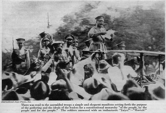 Scene of declaration of Thailand’s democracy, the result of the Siamese revolution of 1932 on April 24, 2020